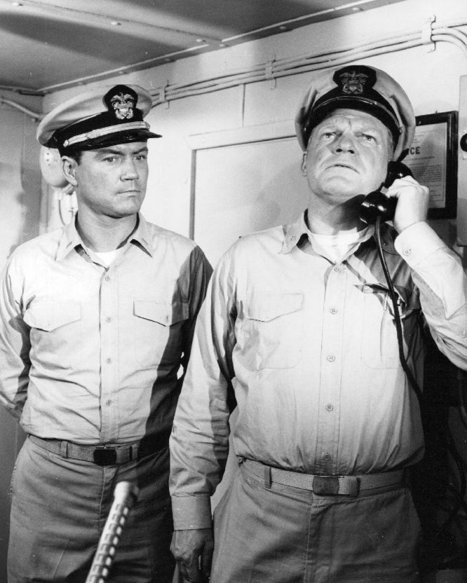 Publicity photo of Roger Smith and Richard X. Slattery from the television program Mister Roberts.